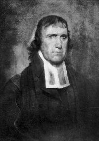 William Linn (1752-1808)